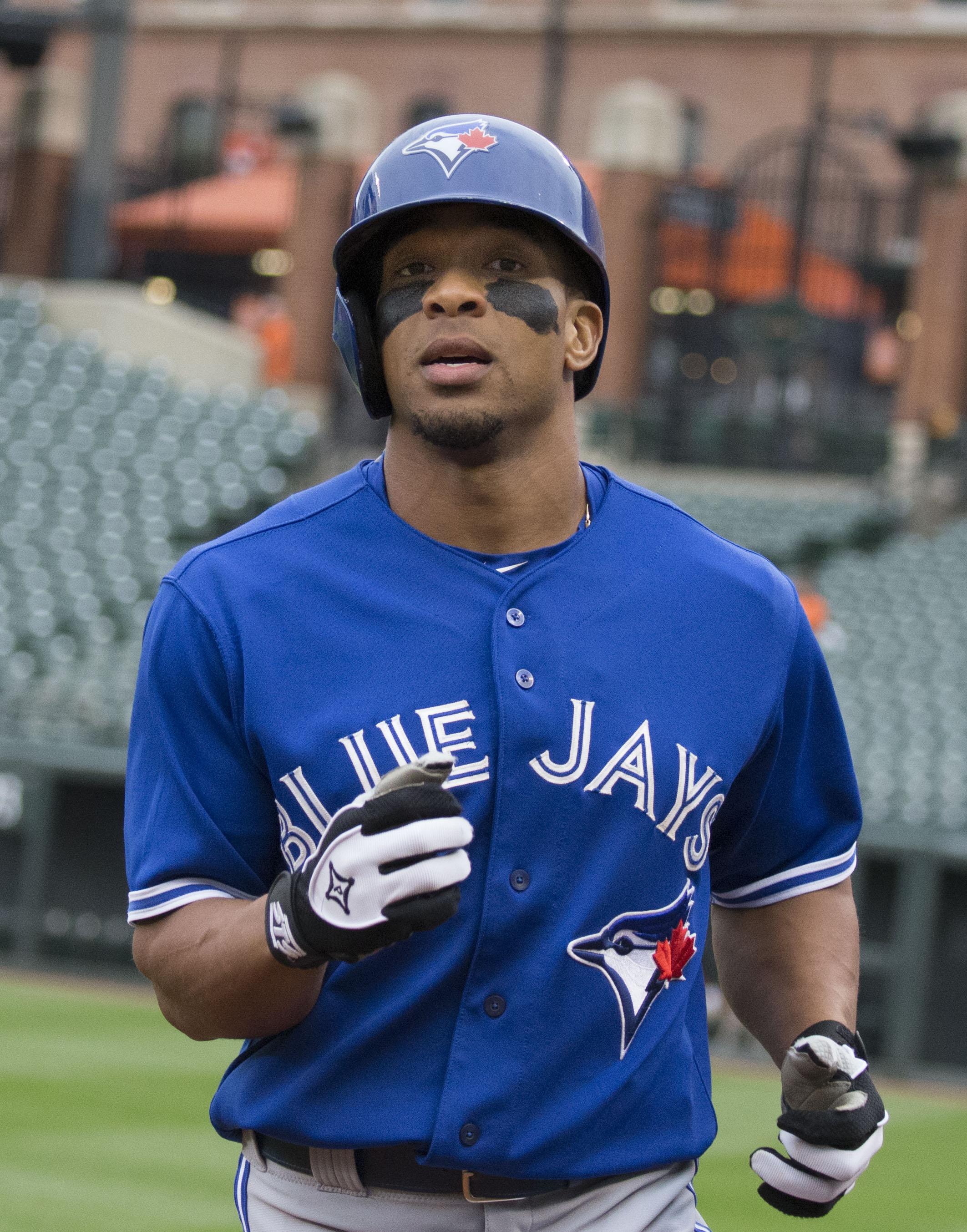 Ben Revere on September 30, 2015